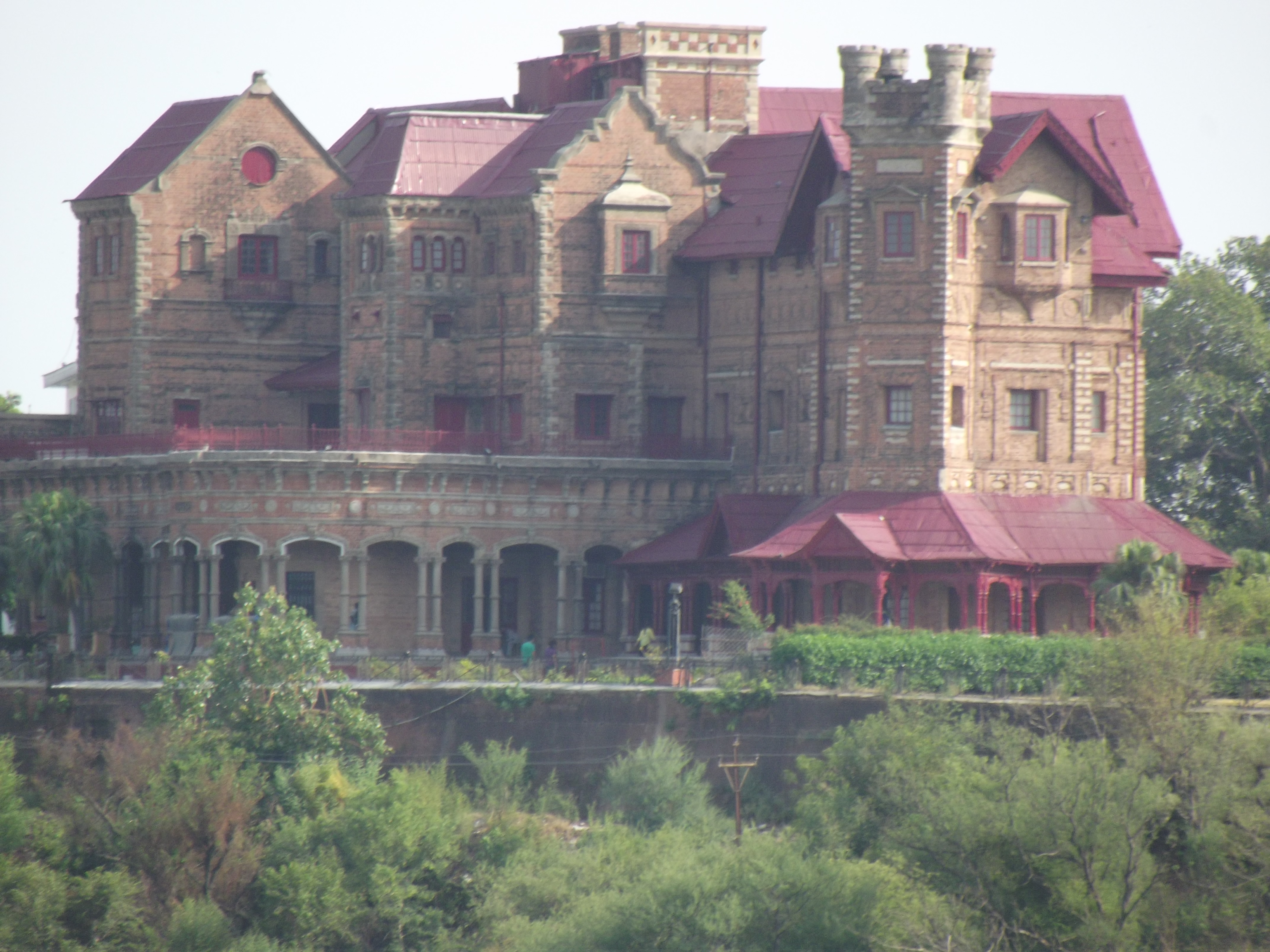 Situated in the northern part of India, Jammu and Kashmir is the essence of everything that is Indian, its culture, history, tradition, people and natural splendour. In the early Nineteenth century Maharaja Hari Singh built a majestic palace by the banks of river Tawi which overlooked the city and had a panoramic view of the Trikuta hills. Christened Hari Niwas Palace this majestic structure overlooks the Tawi river valley on one side and Trikuta hills of the Vaishno Devi shrine on the other. Hari Niwas Palace is now looked after by Maharaj Kumar Ajatshatru Singh and Kumarani Ritu Singh, grandson and daughter in law of Maharaja Hari Singh. The couple has painstakingly got the architects to retain the architectural frame of the palace. Nestled among Mango groves and lush green lawns the hotel has played host to several distinguished guests and is the only luxury heritage hotel in the entire state of Jammu and Kashmir. The Hari Niwas Palace is an art-deco structure. Hari Niwas Palace was converted into a heritage hotel in the year 1990. Within the 50 acre palace complex exists the magnificent Amar Mahal Palace Museum which was conceived by Maharaja Amar Singh.